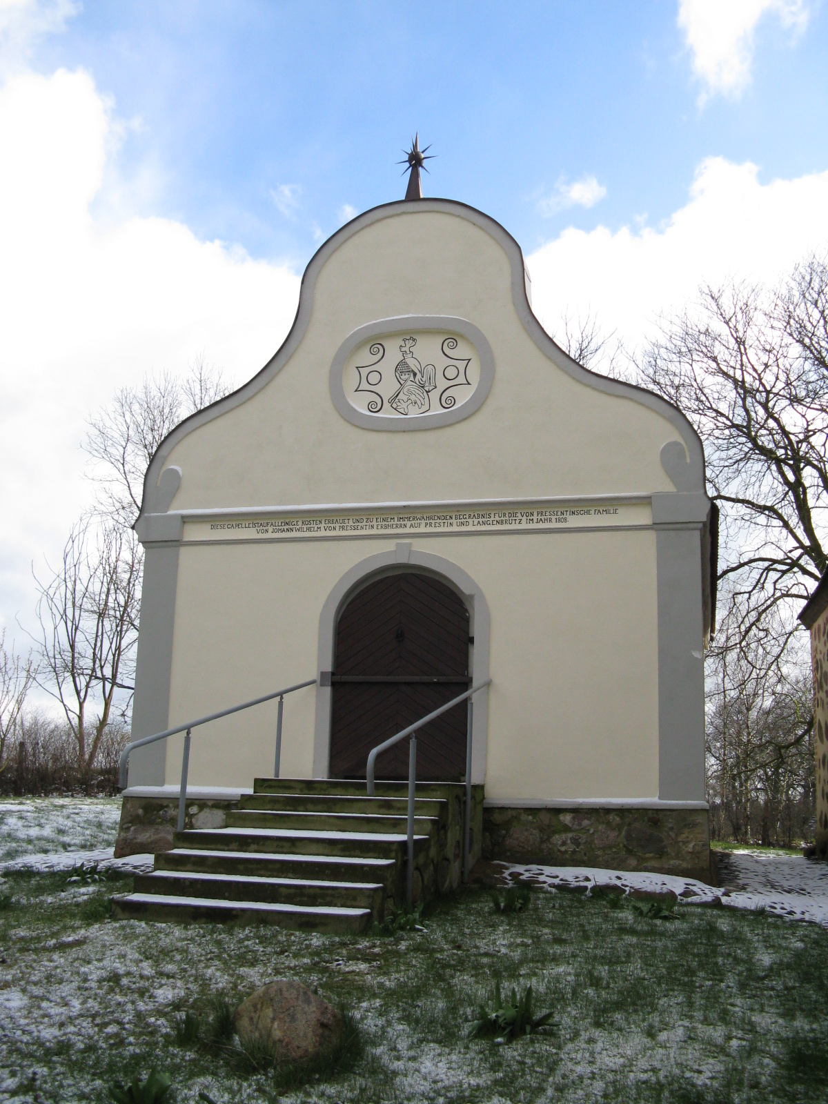 Burial vault from 1808 by the church in Prestin, Germany